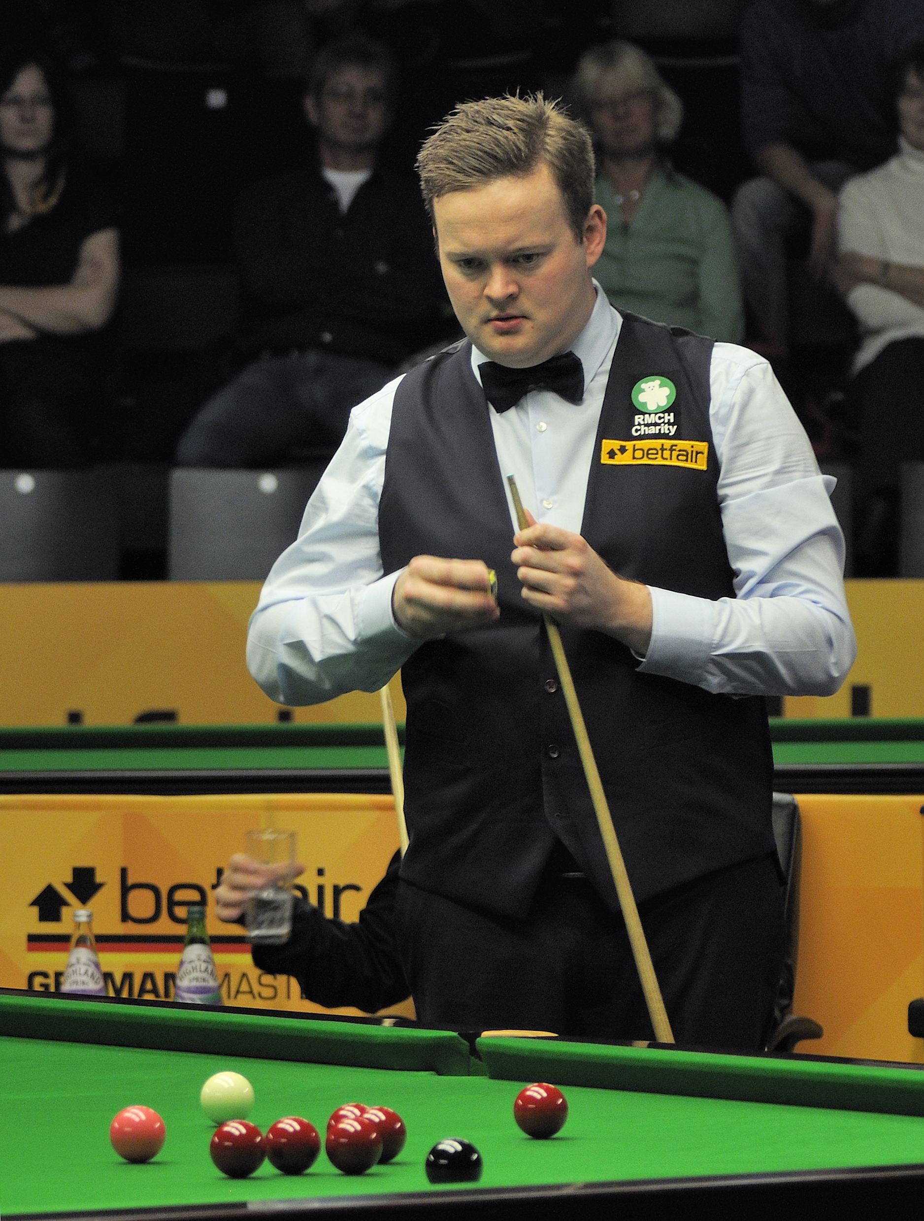 Picture taken in Berlin during the Snooker German Masters in 2013. Shaun Murphy.